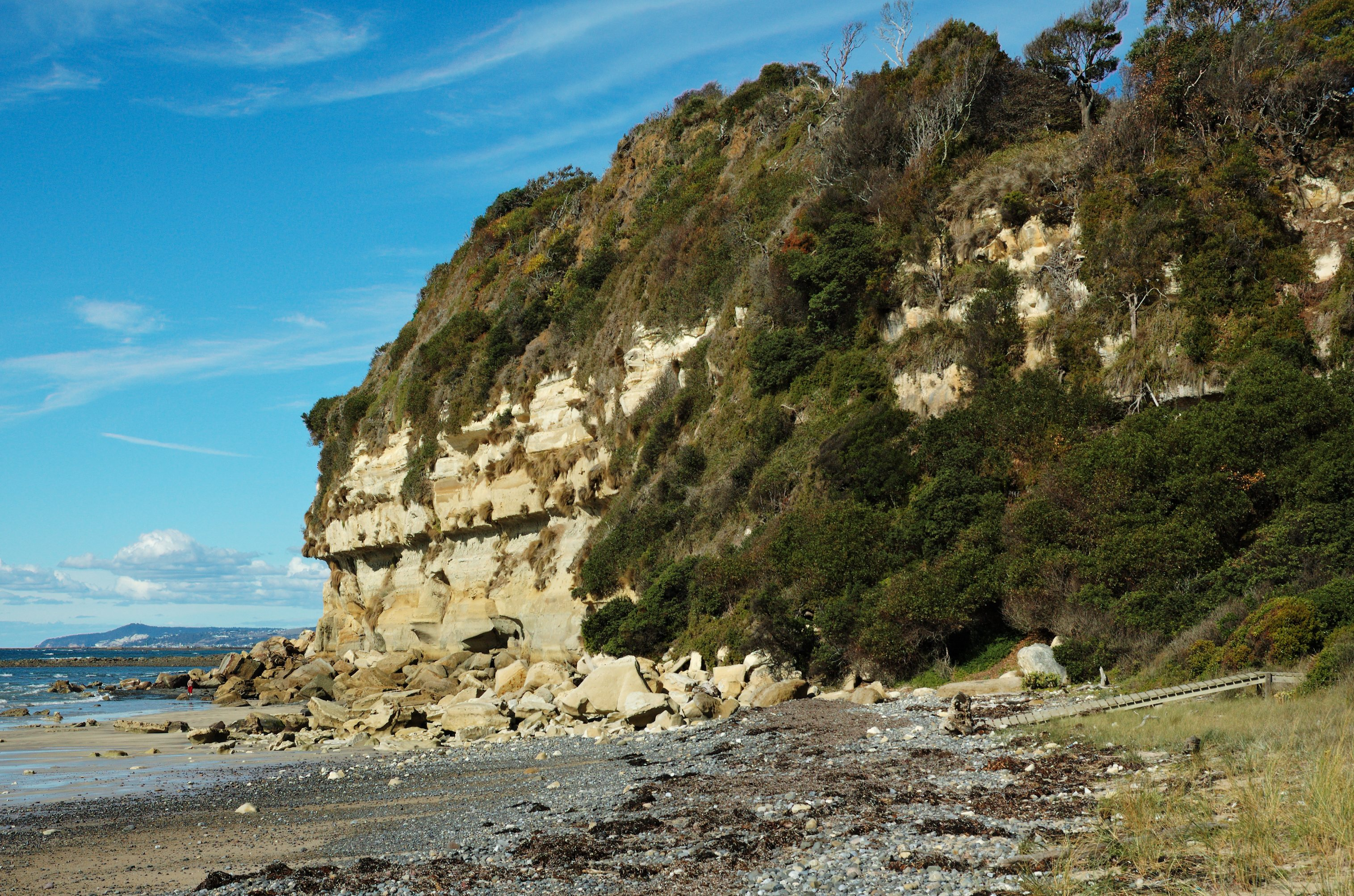 The beach at Fossil Bluff, Wynyard, Tasmania.